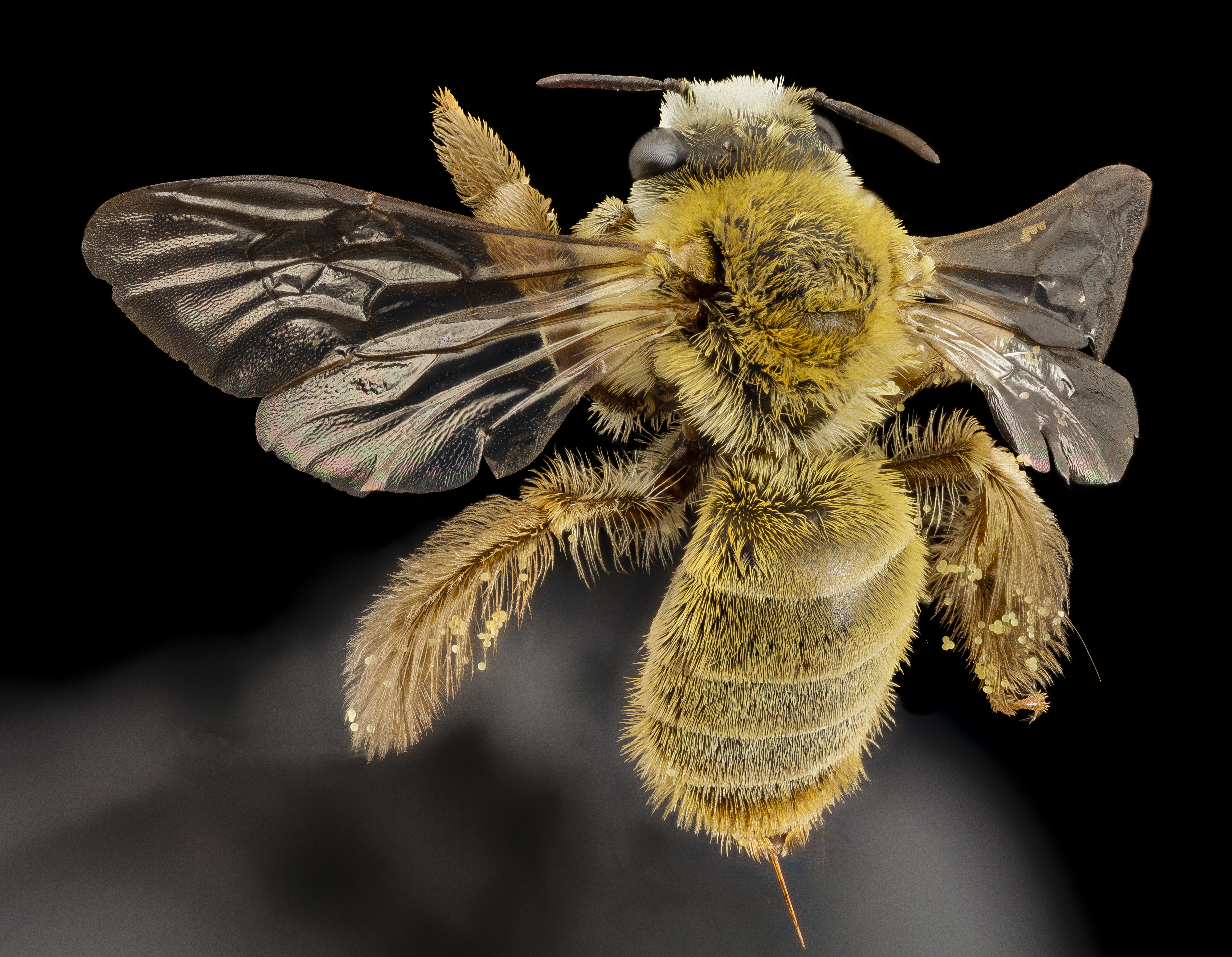 Alepidosceles - Sorry, too very tired to look up anything about this lovely Diadasia like bee from Brazil. You will have to do it for me, I can't do everything you know. Just make up some interesting life history notes for me, if you would, please.